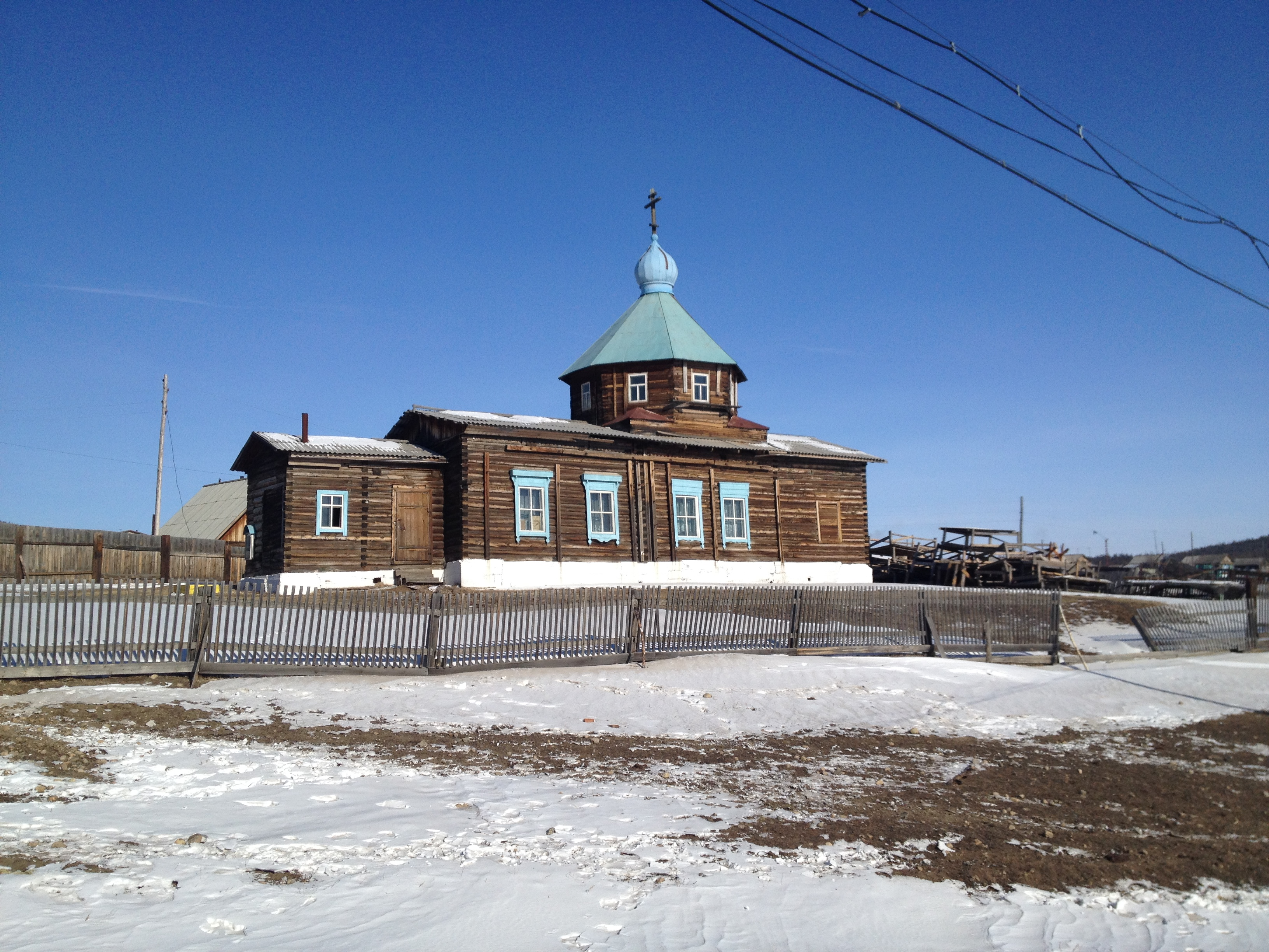 Pavel Gurenchuk 2015